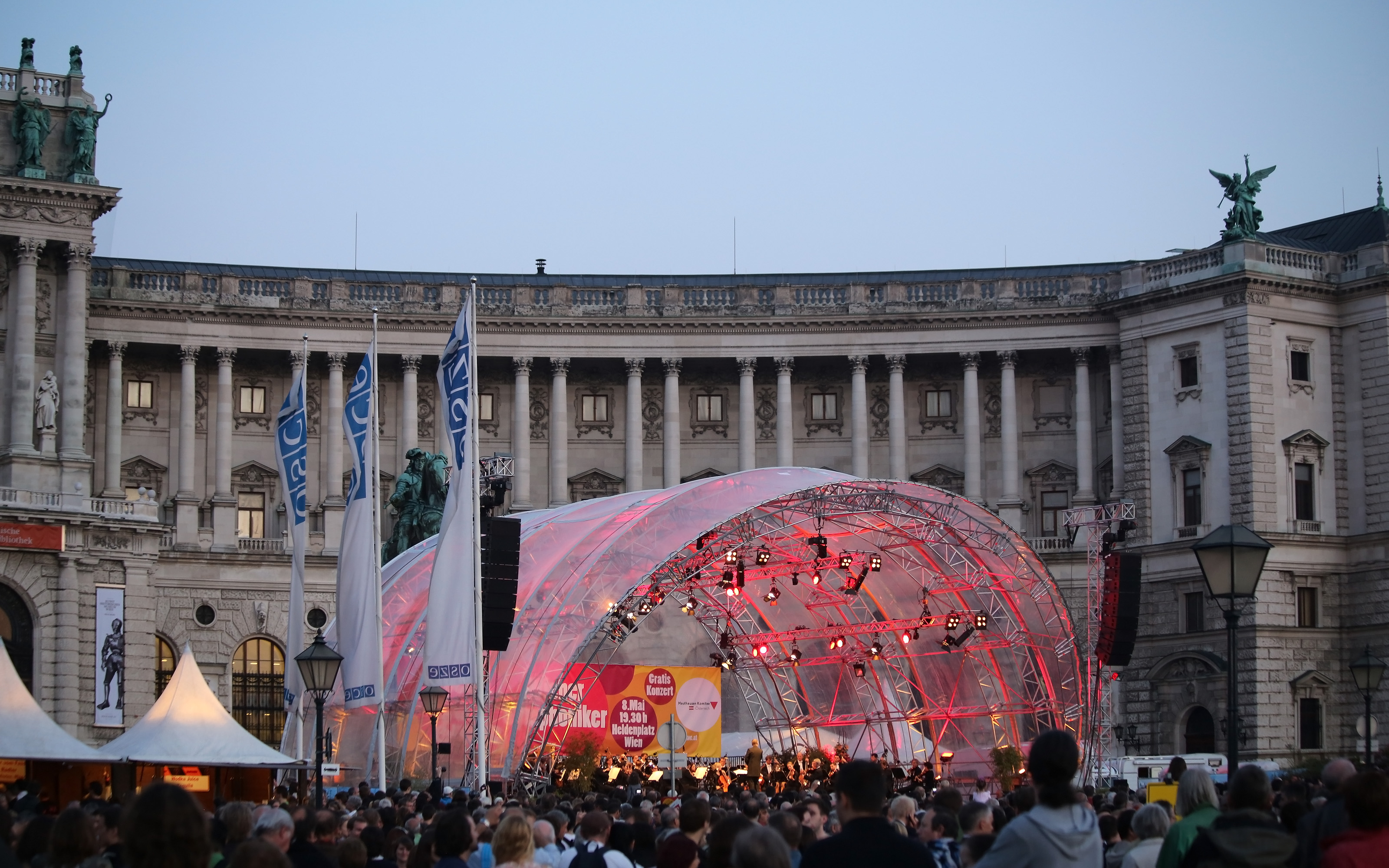 "Fest der Freude" (Festival of Joy) on Heldenplatz in Vienna, Austria. Public concert of the Vienna Symphony with conductor Bertrand de Billy.